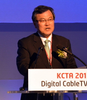 Choi Mun-gi at KCTA 2013